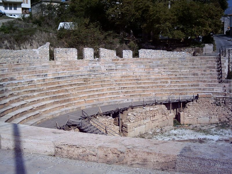 Ancient theatre of Ohrid, Republic of Macedonia